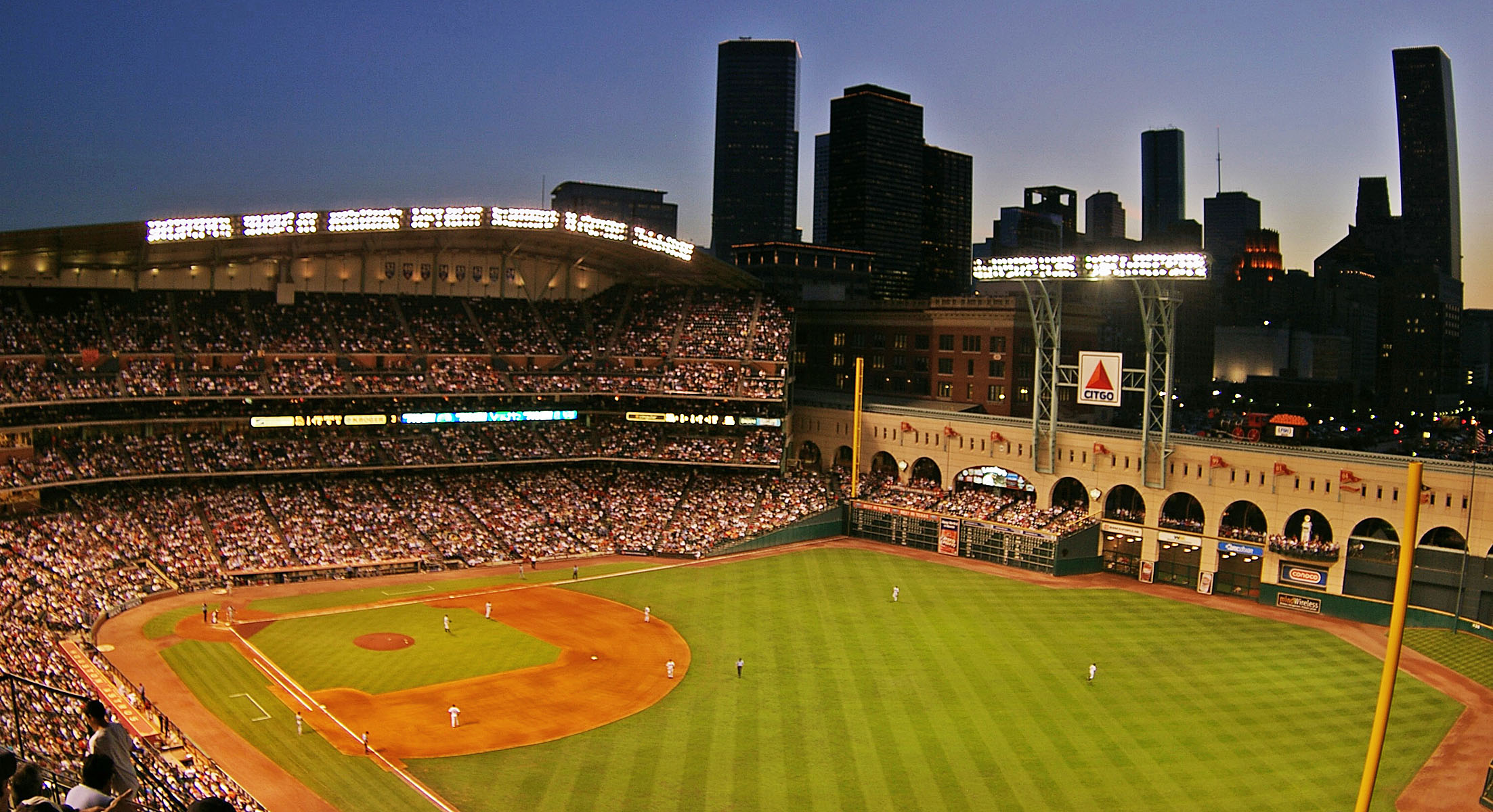 Minute Maid Park in Houston.